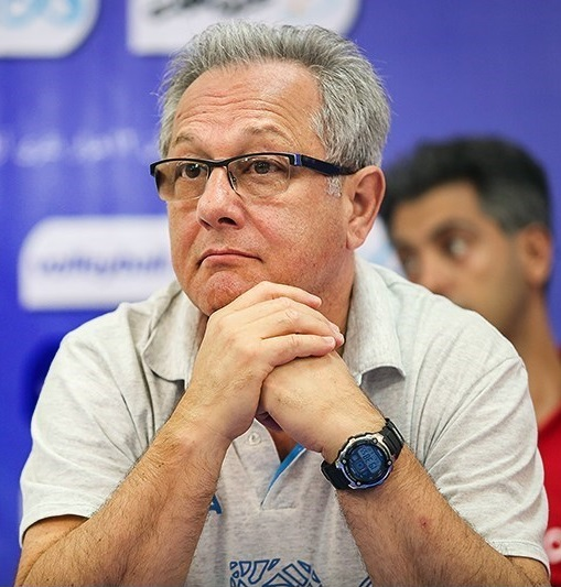 Julio Velasco in a press conference in Tehran